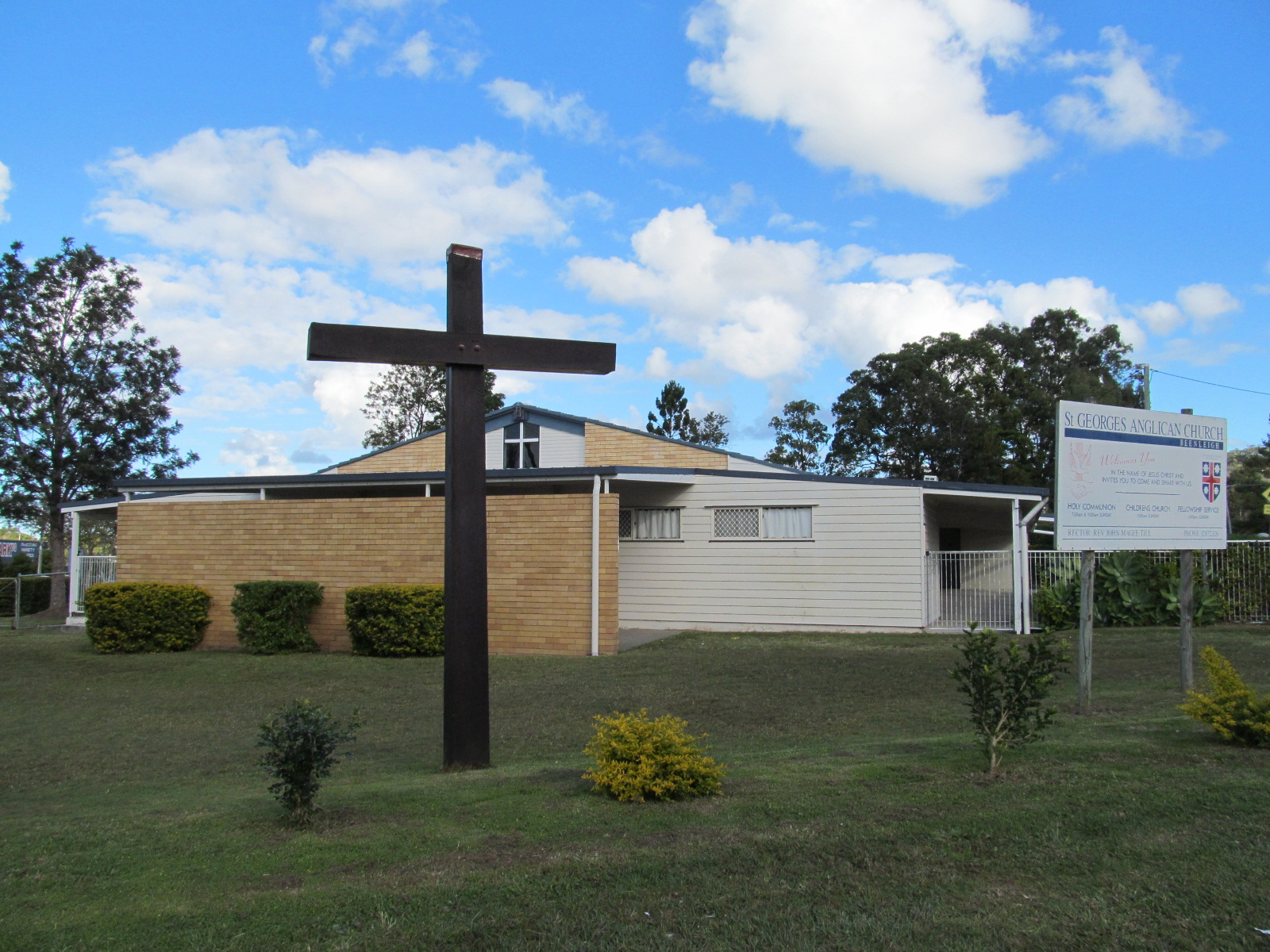 St George's Anglican Church, Beenleigh, Queensland.